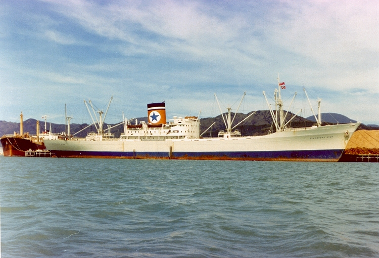 The refrigerated general cargo ship Gladstone Star alongside in Nelson, New Zealand